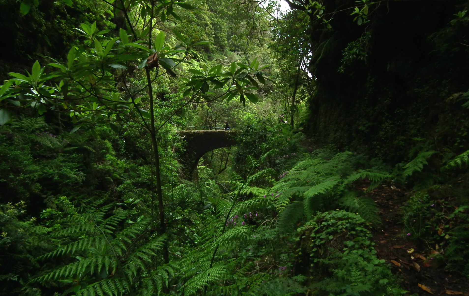 Old roads and passagens between villages and other places in Madeira Island (Atlantic Ocean) surronded by UNESCO protected pré historic forest. This is a photography of a Site of Community Importance in Portugal with the ID: PTMAD0001. Natura2000 entry, EEA entry